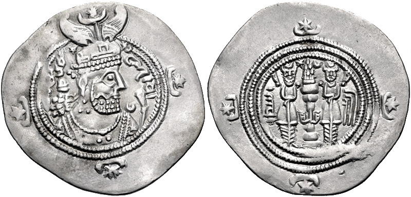 Coin of the Sasanian king Yazdegerd III, 651 mint.